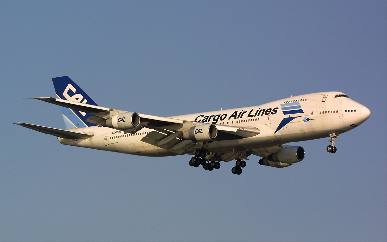 Cargo Air Lines Boeing 747-200F (4X-ICM)